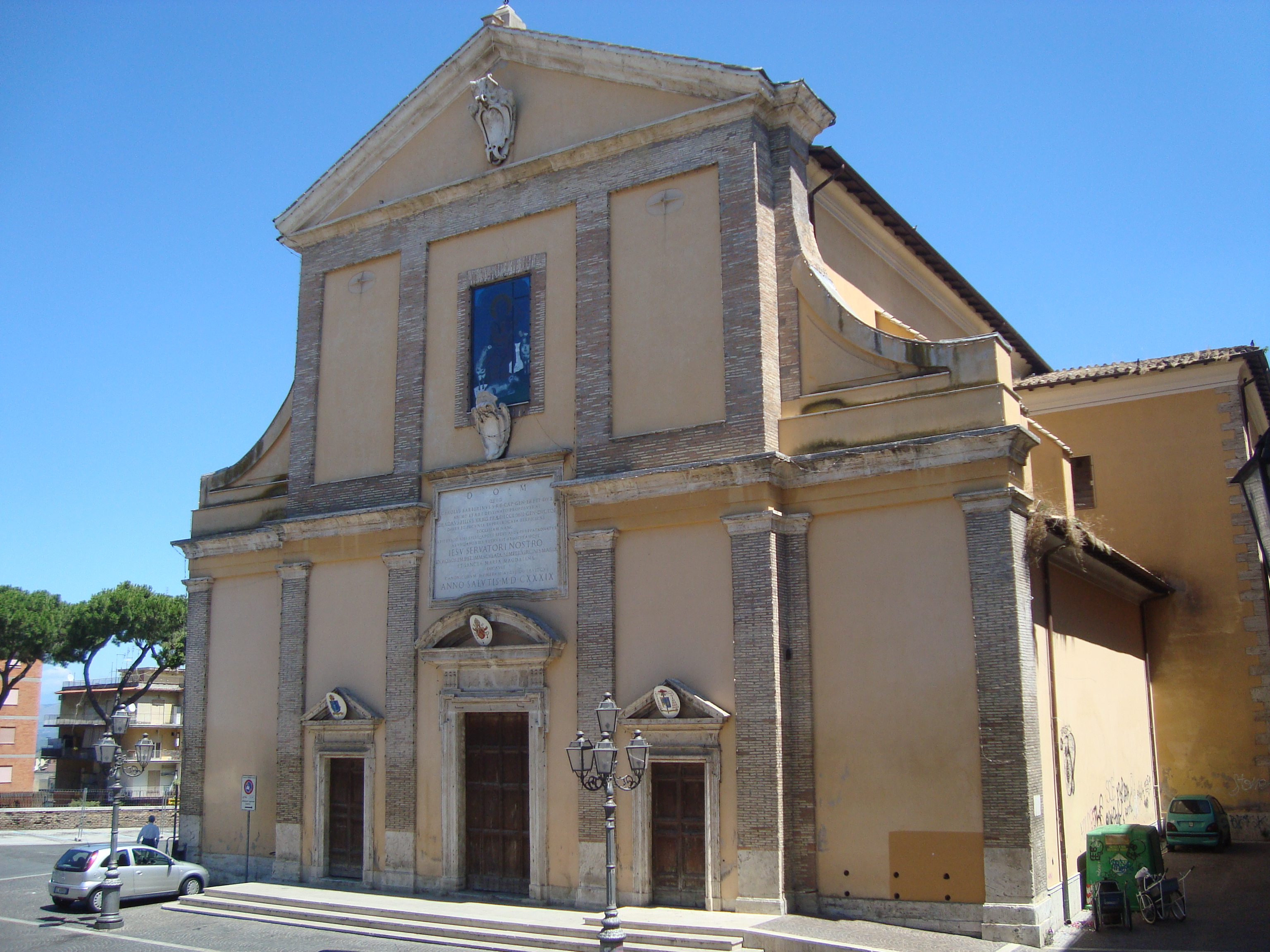 The duomo in Monterotondo, Italy